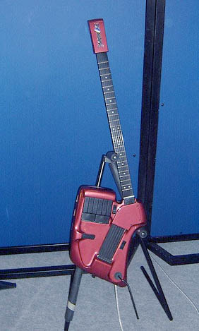 SynthAxe is a fretted, guitar-like MIDI controller, created in 1986 by Bill Aitken and manufactured in England in the middle to late 1980s. It is a musical instrument that uses an electronic synthesizer to produce sound and is controlled through the use of an arm which resembles the neck of a guitar in form and in use. The name SynthAxe is a portmanteau of the words Synthesizer and Axe, which is a popular slang term meaning guitar.